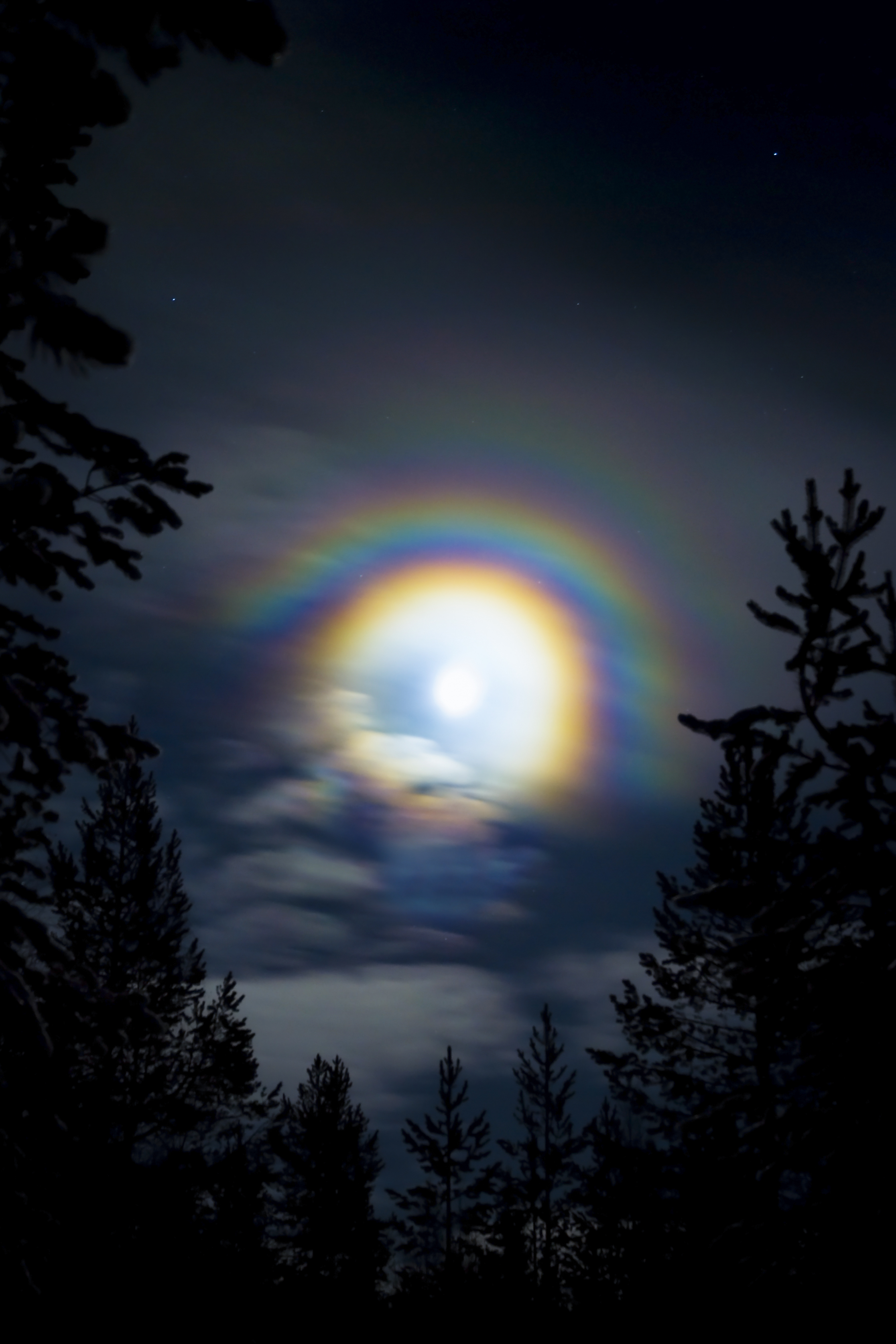 Corona Around The Moon. Kuusamo, Finland.